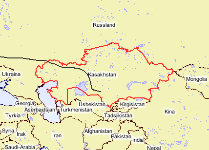 The European route 38